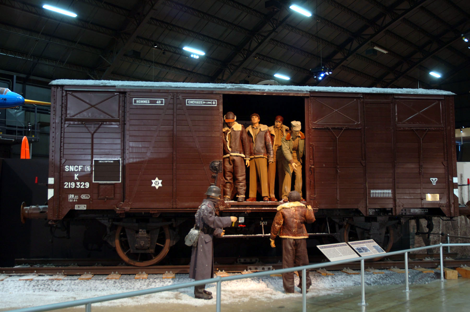 DAYTON, Ohio -- "Forty and Eight" boxcar on display in the World War II Gallery at the National Museum of the United States Air Force. (U.S. Air Force photo). By the end of the 19th century, railroads made it possible to transport people and goods quickly over long distances, and this transportation revolution soon affected military operations. Armies became reliant upon railroads for supplies, and during World War I, men and supplies flowed to the trenches in railroad cars. A familiar sight to American "Doughboys" was the French "forty and eight" railroad cars, which carried them to the front. These cars received their names because they could carry 40 men or eight horses, as was clearly painted on each boxcar. During World War II, the little-changed "forty and eight" boxcars still transported supplies and troops to the front, but they also returned to Germany with new cargoes. Many Allied prisoners of war rode to German POW camps in these boxcars -- sometimes with as many as 90 men forced into each boxcar. Millions of Holocaust victims were herded into similar boxcars on their way to concentration camps. Boxcars such as the one on display carried 168 Allied POWs from Paris to the Buchenwald concentration camp in August 1944. Many POWs endured harsh conditions during their trips to POW camps, which sometimes included attacks from Allied aircraft. Constructed in France in 1943, this "forty and eight" railroad car operated in occupied France during WWII, and it most likely transported human cargoes from France to Germany. Withdrawn from service in the 1980s, the French Railroad Company (SNCF) used this railcar to store equipment at a railroad maintenance facility in Dijon, France. SNCF personnel painstakingly restored it to a near-original condition in honor of those American POWs transferred by "forty and eights." Assisted by the French military, the U.S. Air Force airlifted the 13-ton railcar from Istres Air Base, France, to the museum in late July 2001.